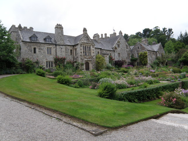 Cotehele East Frontage & Terrace Garden A Tudor house hidden away in the valley of the Tamar.Built largely between 1485 and 1560 owned by the Edgcumbe family until it came to the National Trust in 1947